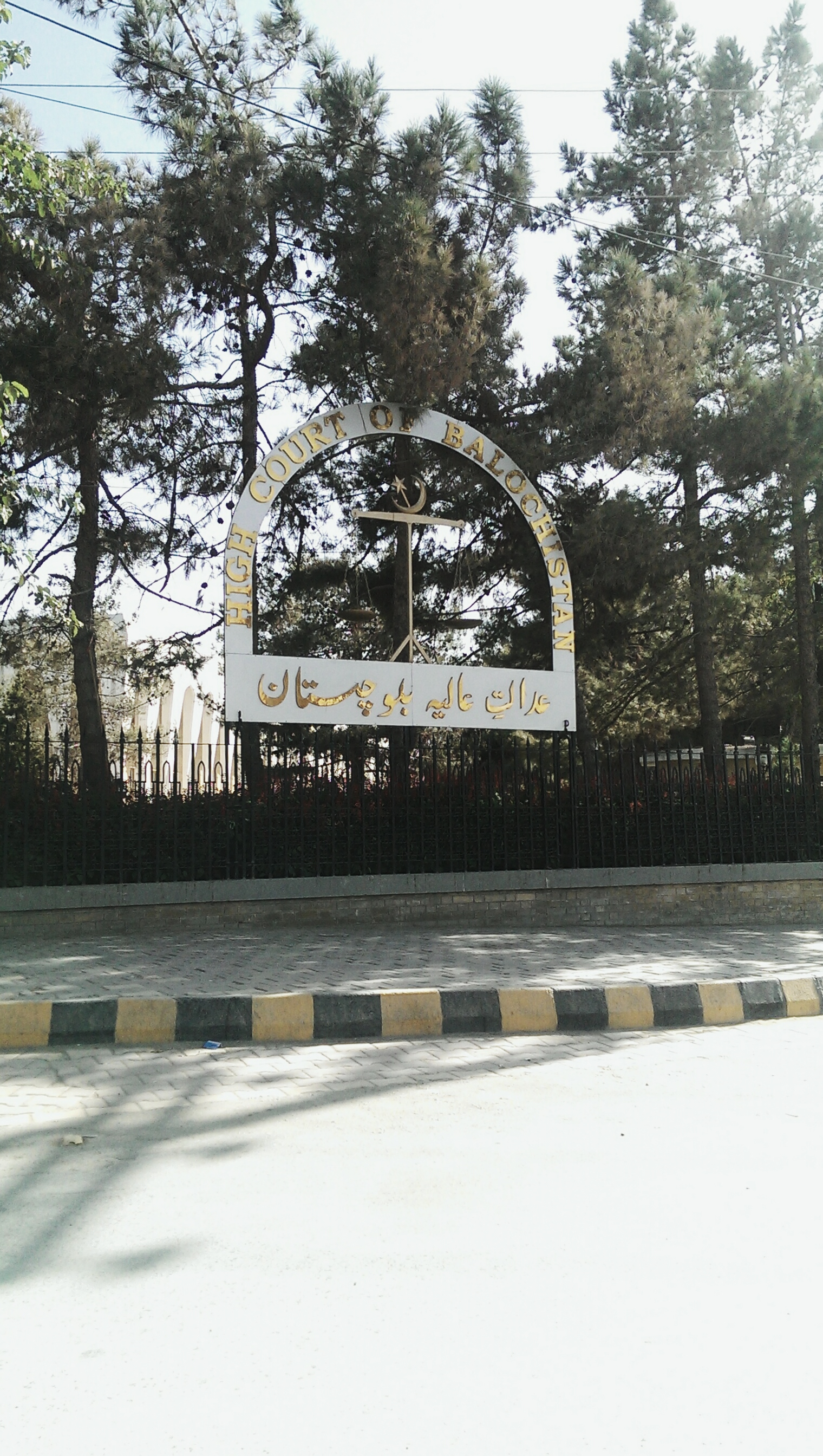 Balochistan High Court building This is a photo of a monument in Pakistan identified as the BA-U-38